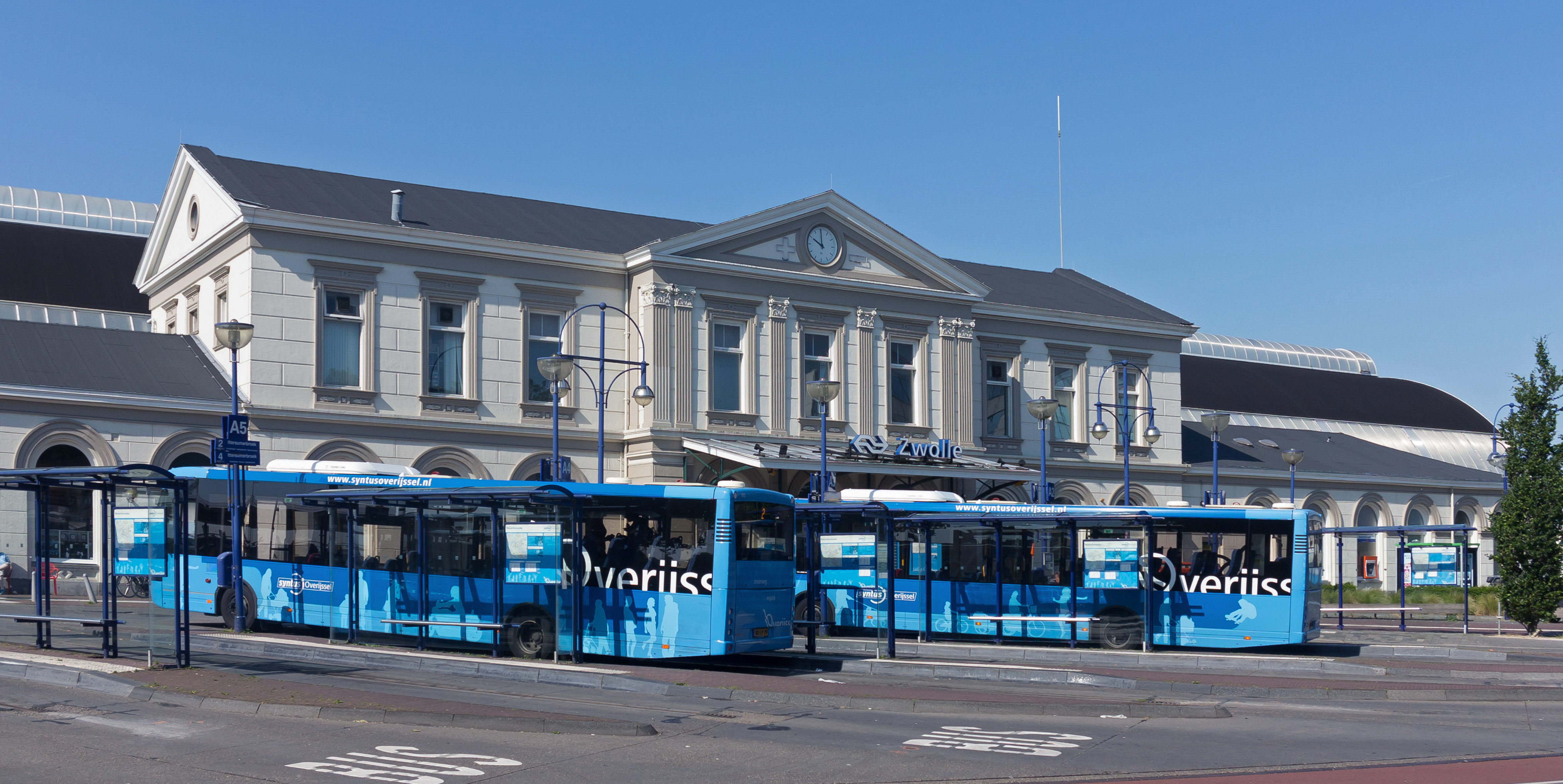 Zwolle, main railway and bus station